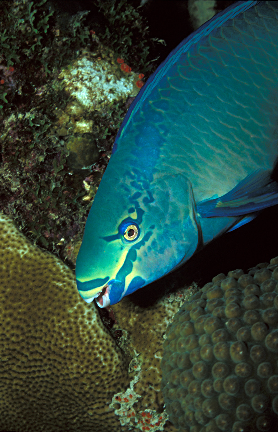 Scarus vetula A colorful Queen Parrotfish (Scarus vetula) grazes on coral in the late afternoon. The parrotfish gets its name from the sharp beak, evident in this photo. It's made up of fused teeth and is powerful enough to scrape hard coral from the surface of the reef.